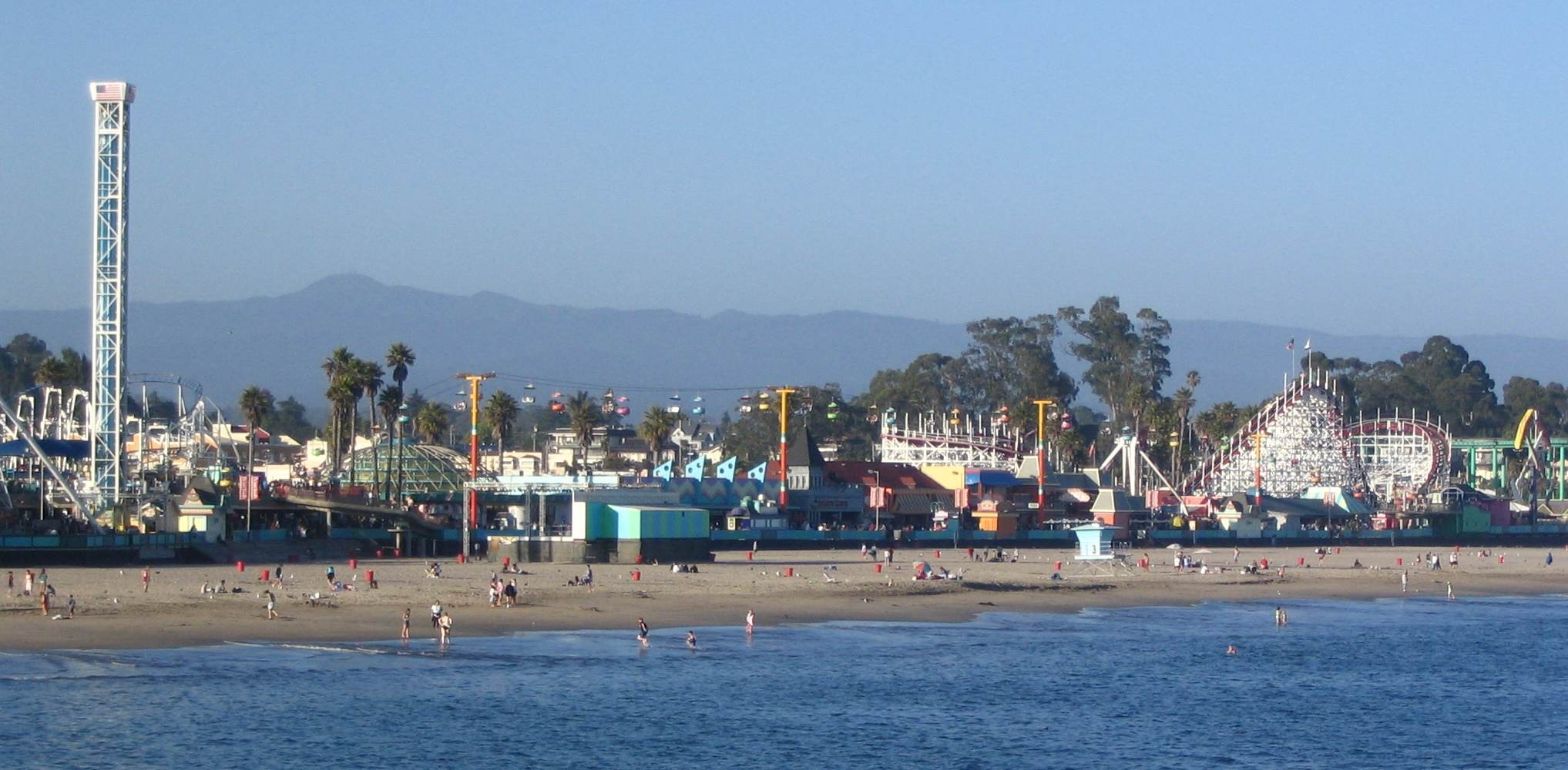 Boardwalk in Santa Cruz, California. Picture taken by Matt314 (July 2005).